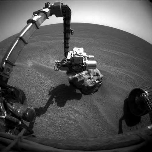 Mars rover Opportunity examines Heat Shield Rock on Sol 349 of its mission, at approximately 13:27:37 Mars local solar time. Left Front Hazard Camera Non-linearized Downsampled EDR acquired on Sol 349 of Opportunity's mission to Meridiani Planum at approximately 13:27:37 Mars local solar time.